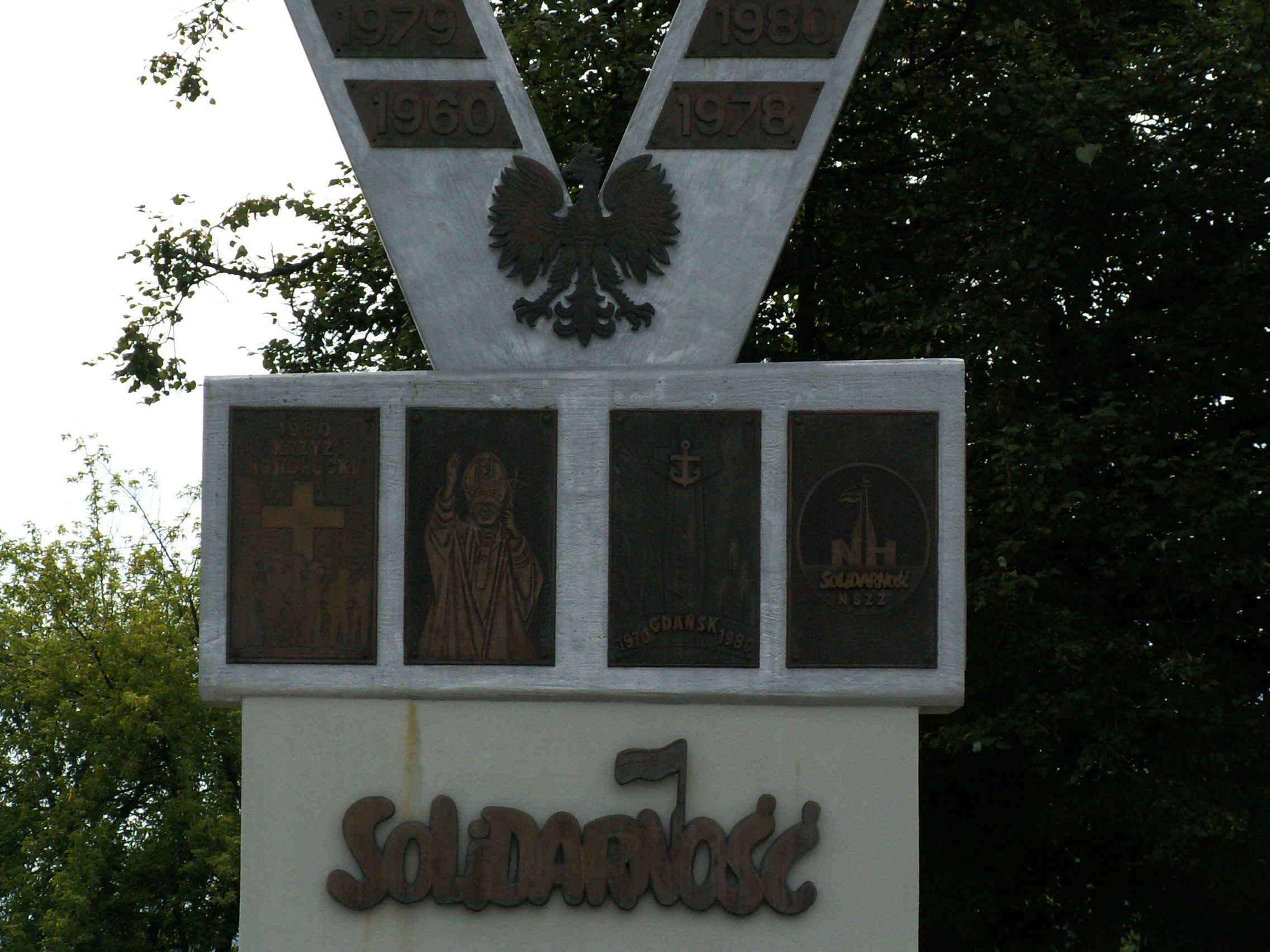 Solidarity Memorial (element),Nowa Huta, Centralny square, Krakow, Poland